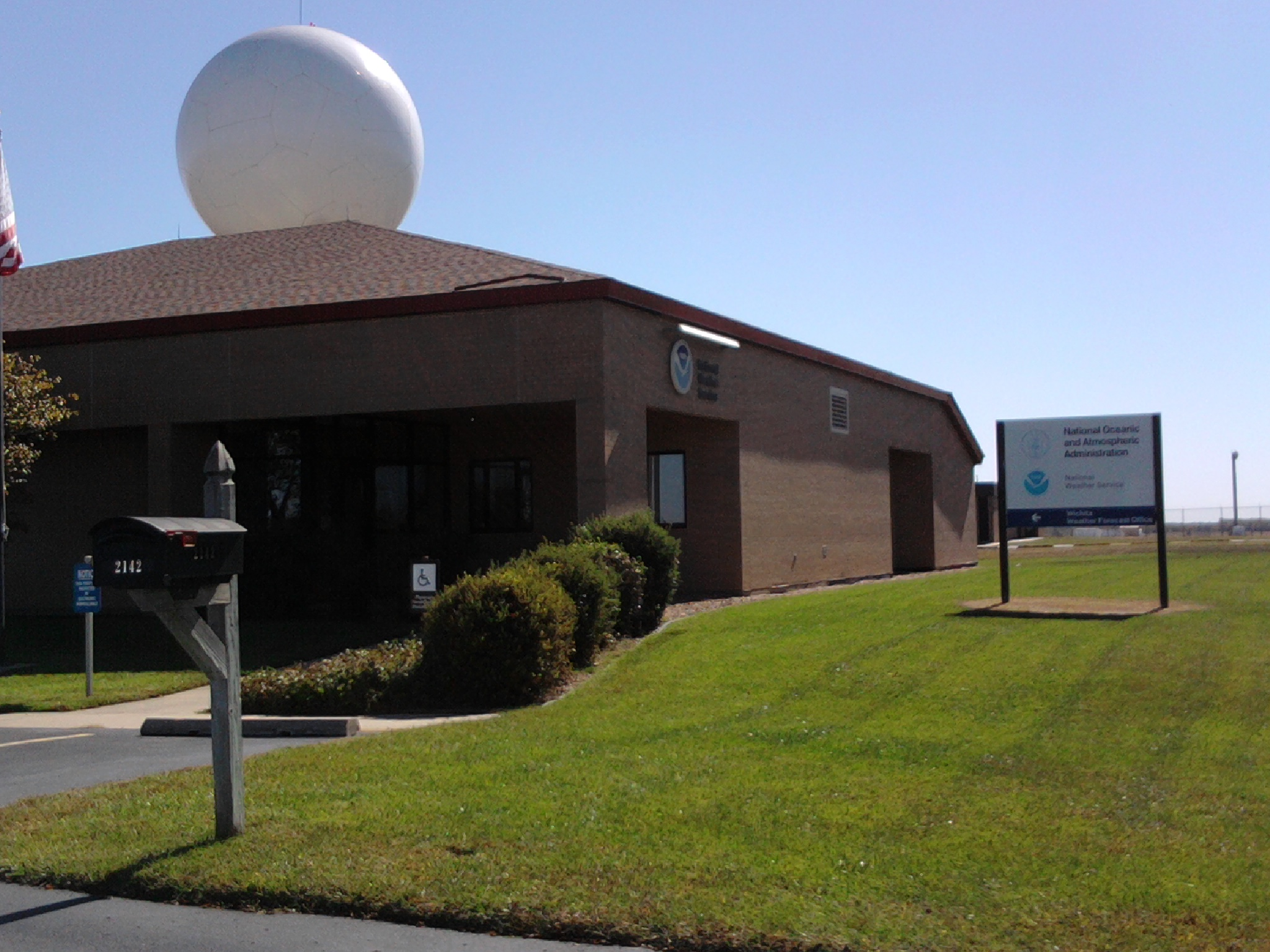 The National Weather Service forecast office in Wichita, Kansas, with the WSR-88D radar radome seen in the background above the building.